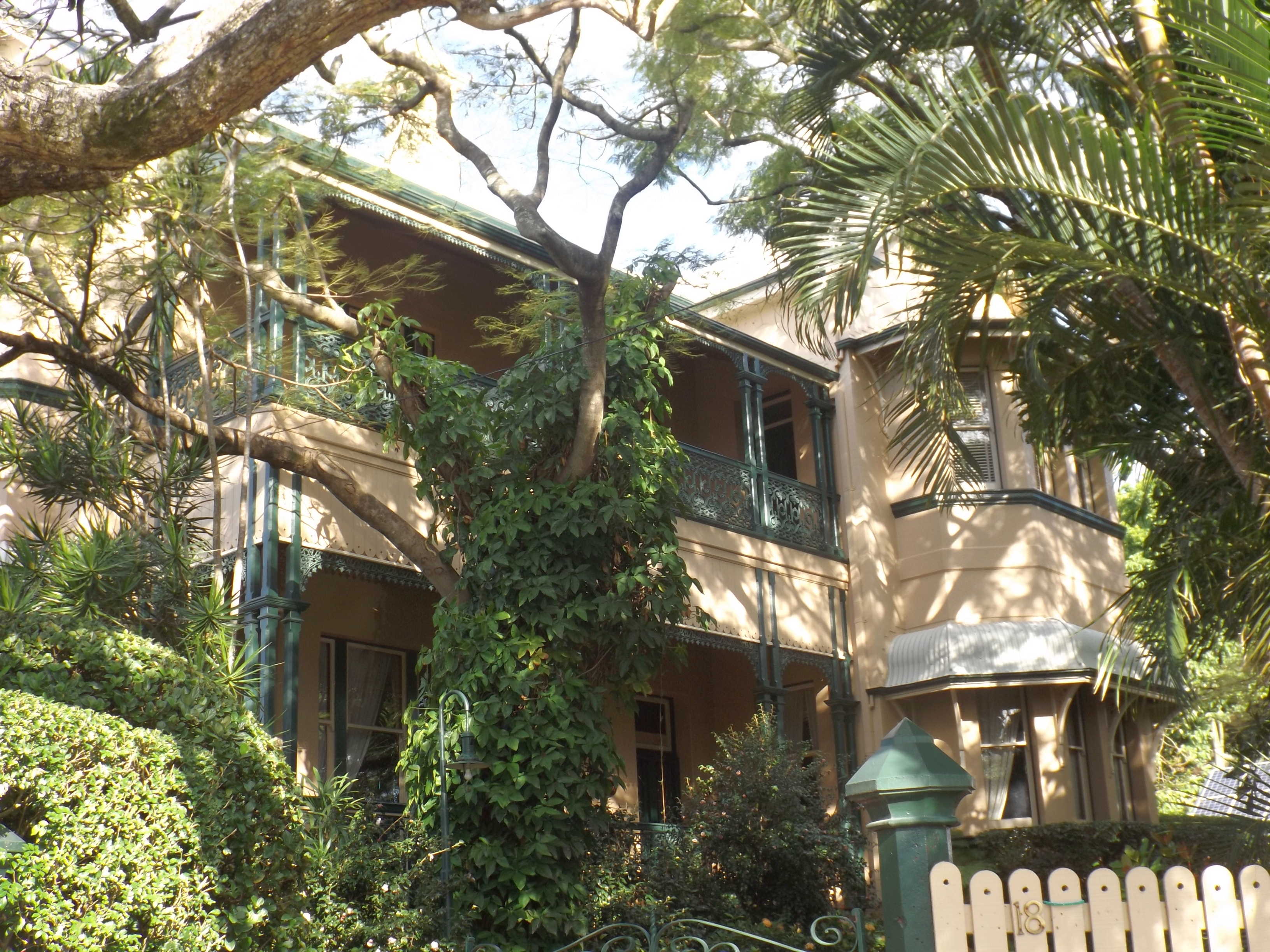 Photo of Tarranalma at Clayfield, Brisbane, Queensland, Australia.